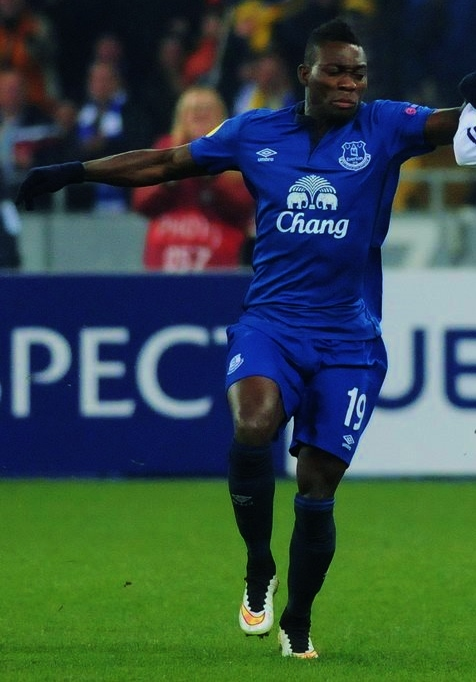 Christian Atsu